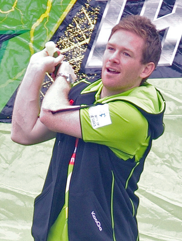 Eoin Morgan in 2013